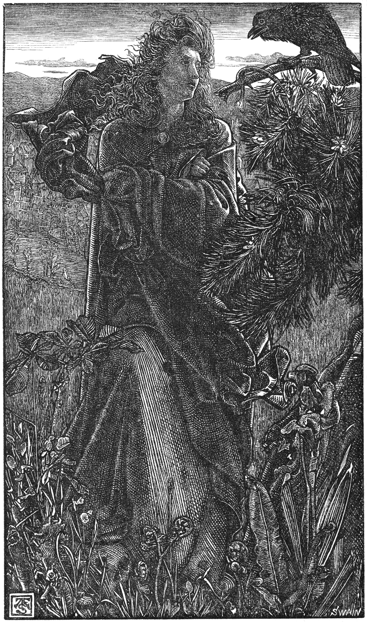 A valkyrie and a raven having a conversation. Illustration to Hrafnsmál or Haraldskvæði by Þórbjörn hornklofi, translated as "Harald Harfagr" in the magazine Once a Week, woodcut engraved by Joseph Swain from art by Frederick Sandys.